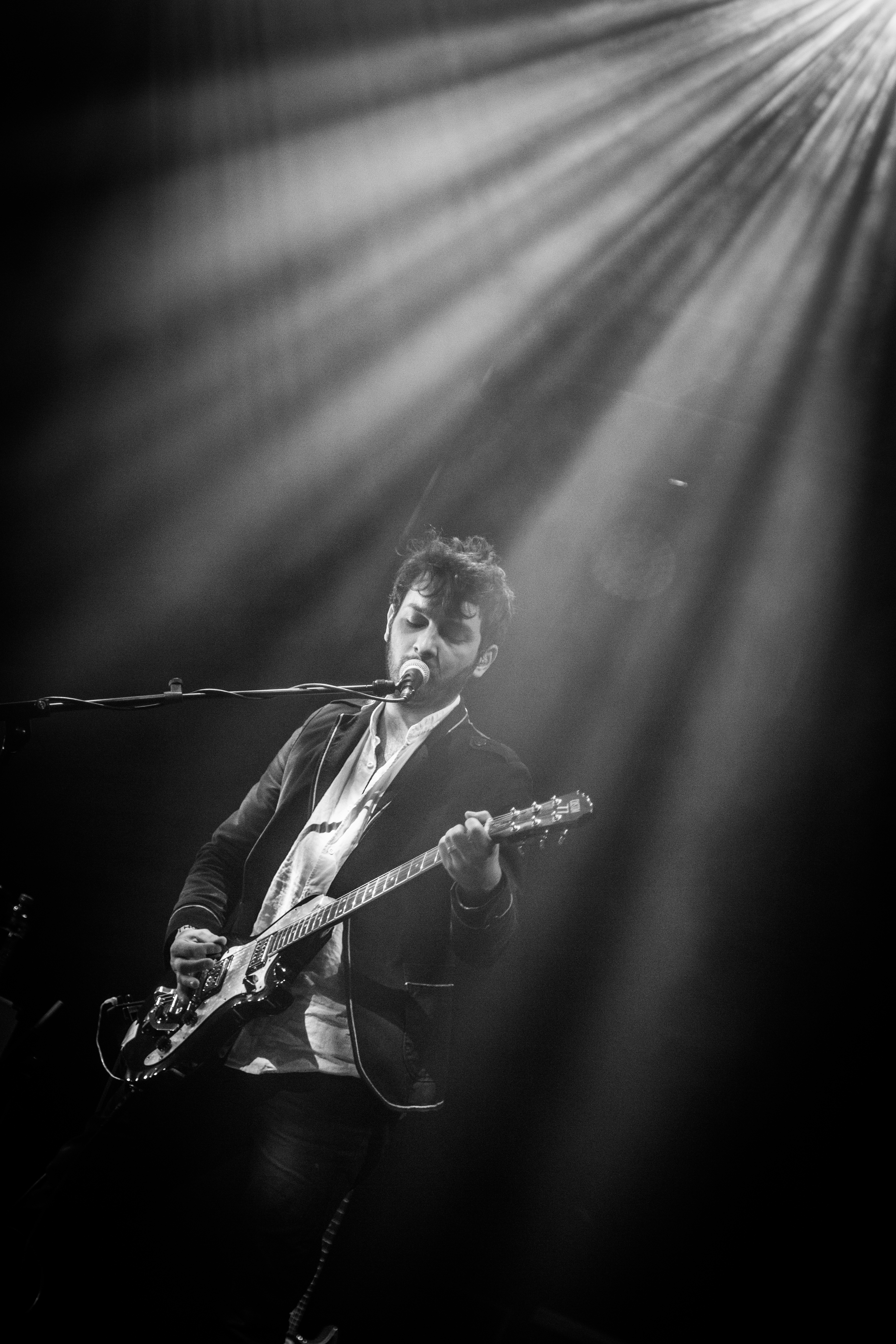 Les Discrets live at Roadburn Festival, Tilburg, April 2017